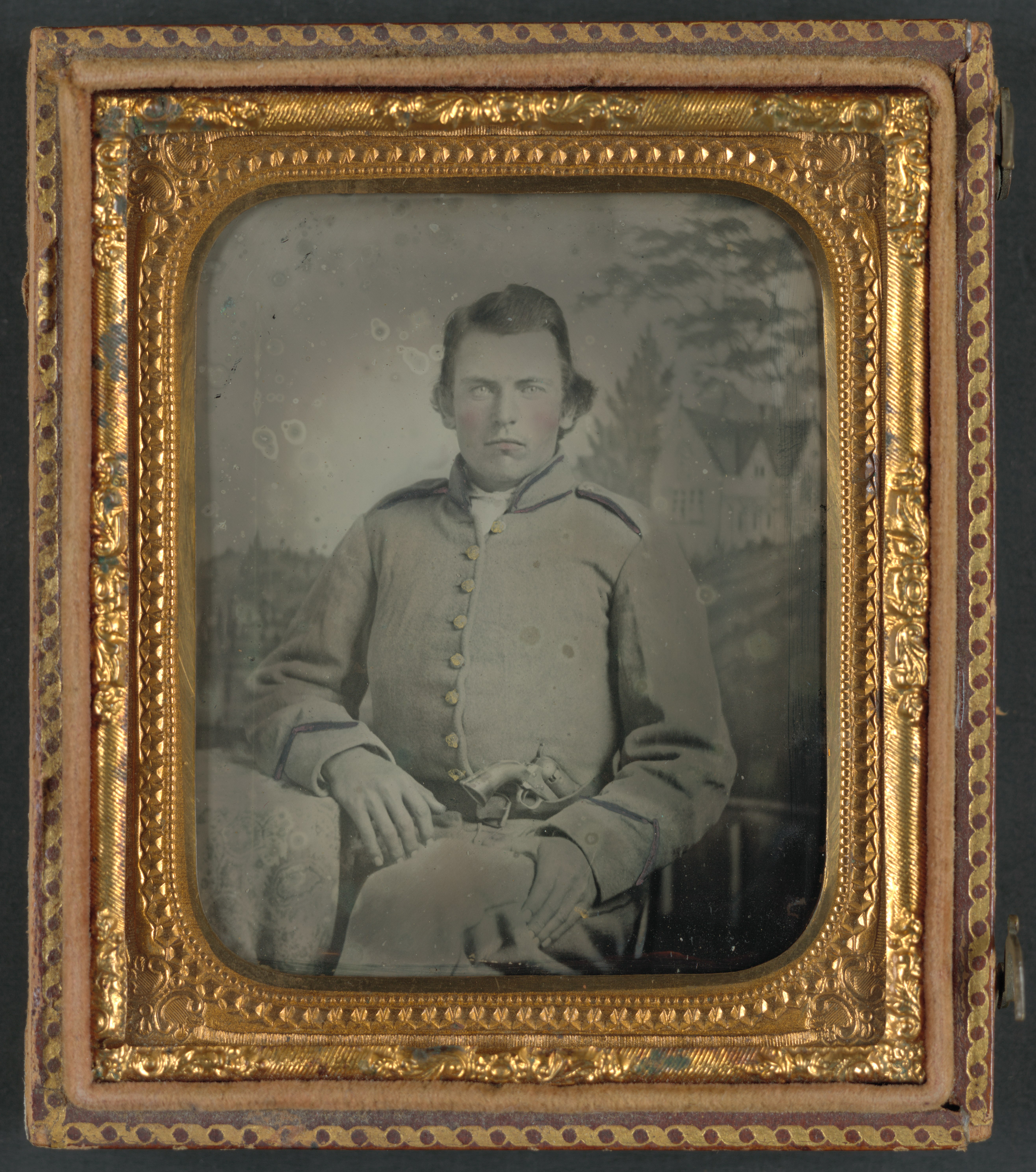 Title: Lewis Hicks of Company H, 53rd North Carolina Infantry Regiment with pistol in front of painted backdrop showing a gabled house Abstract/medium: 1 photograph : sixth-plate ambrotype, hand-colored ; 9.7 x 8.3 cm (case)